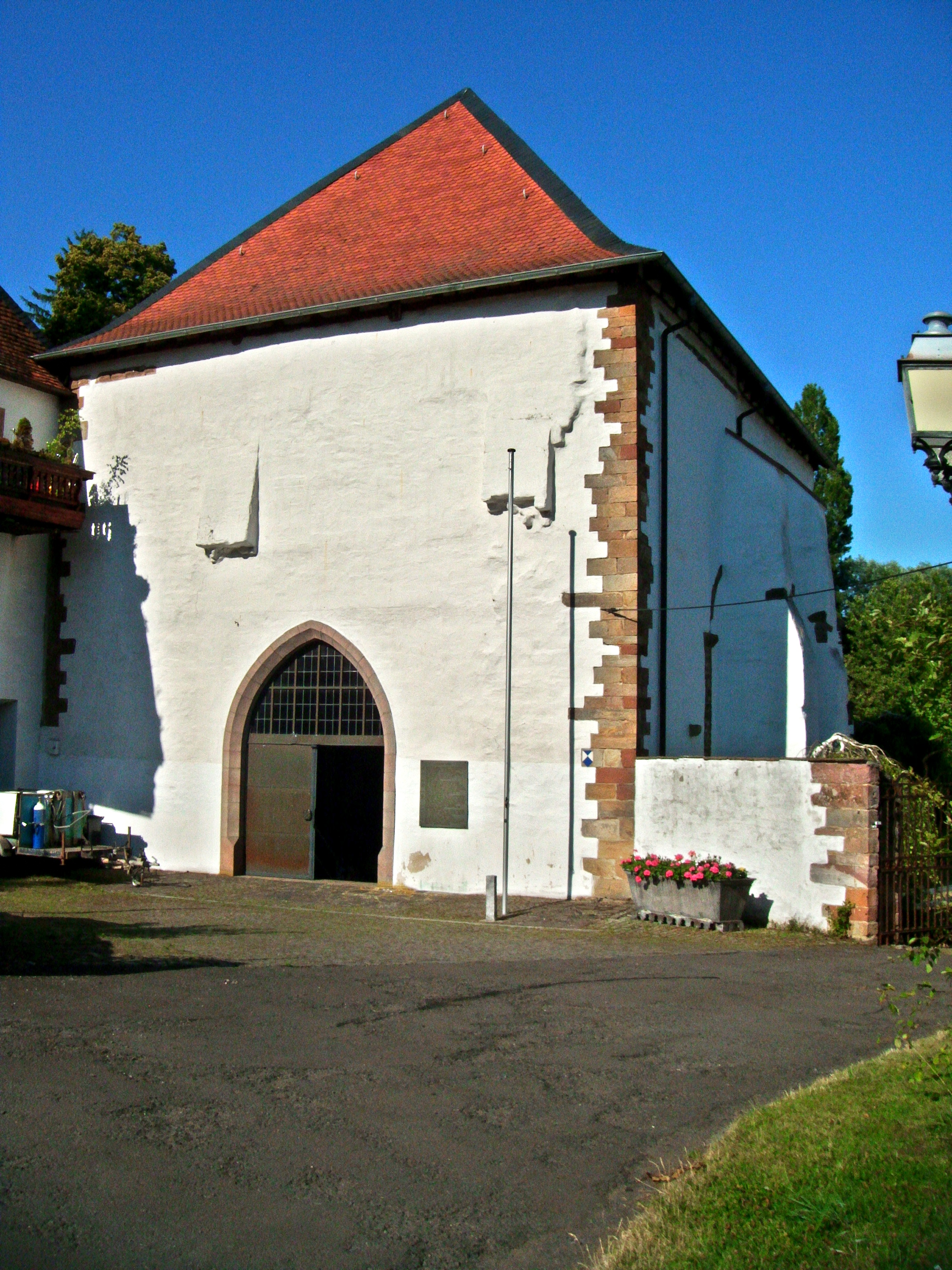 Kloster Hane, Bolanden, Kirche von Westen